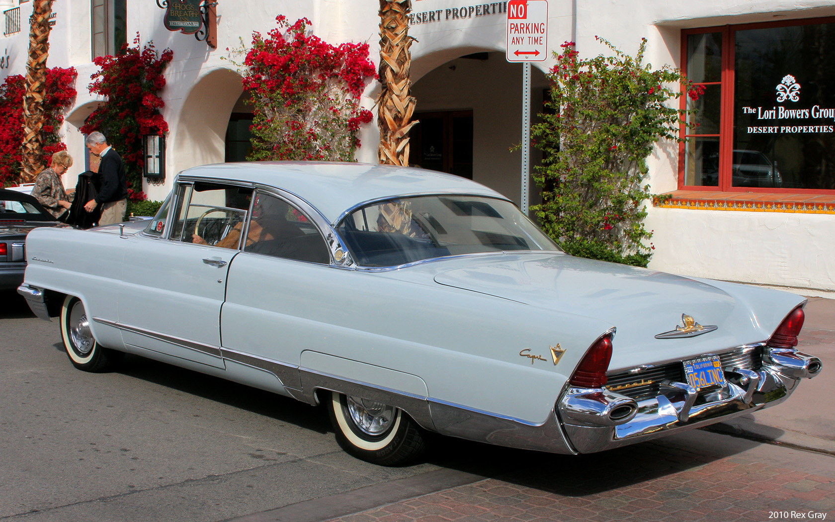 Third Annual Desert Classic Concours d'Elegance, Feb 28 2010